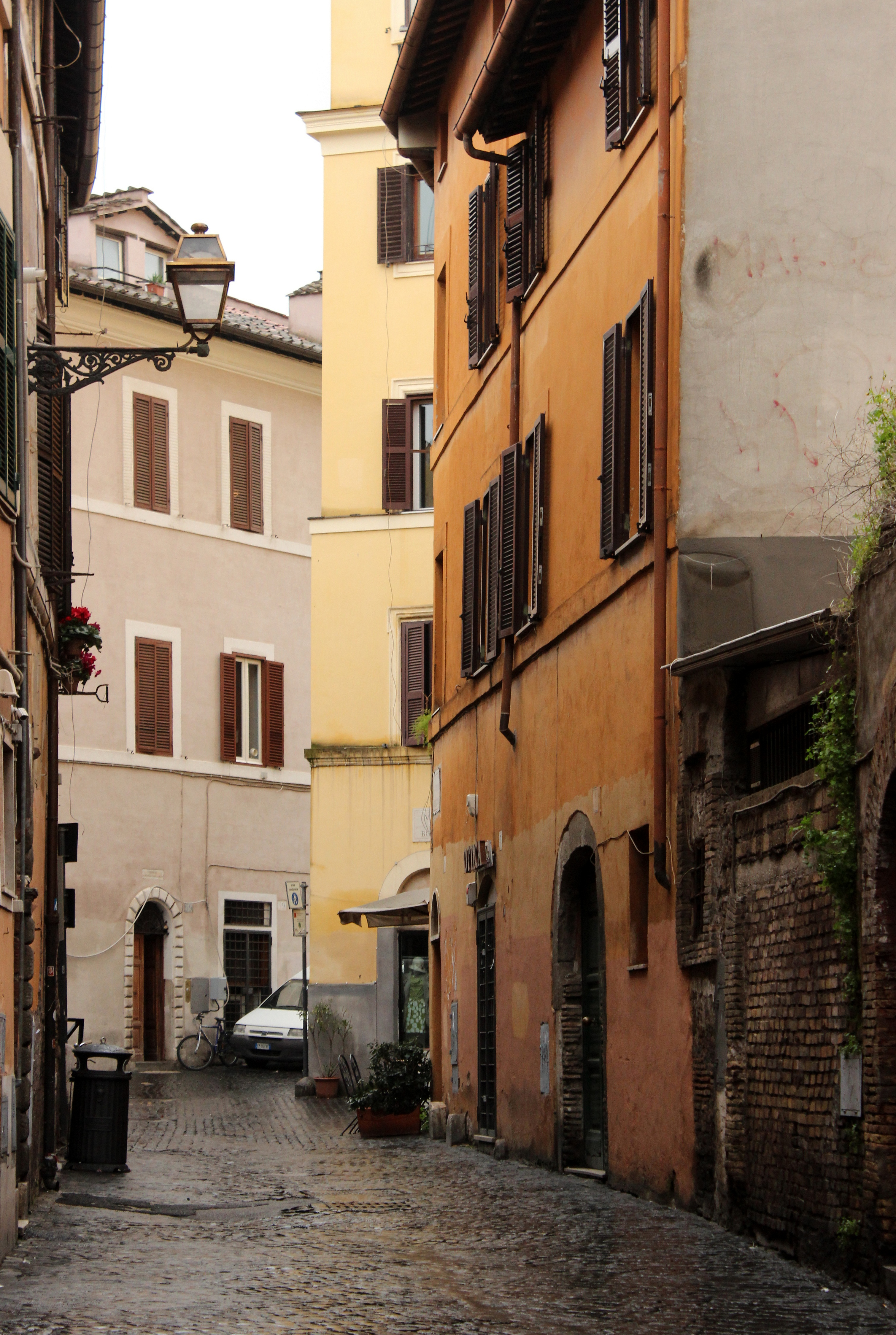 The Vicolo de' Cinque street in Trastevere, Rome.